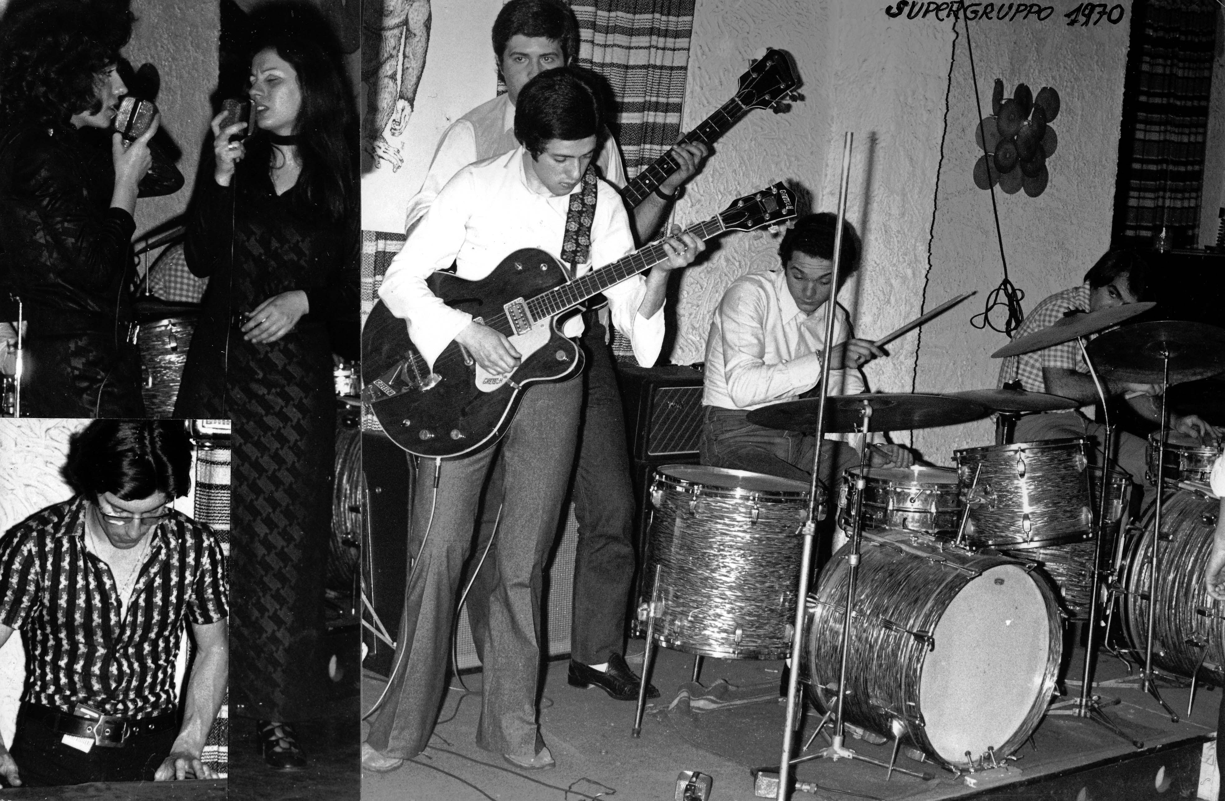 SUPERGRUPPO/LUCI e OMBRE italian band 1970